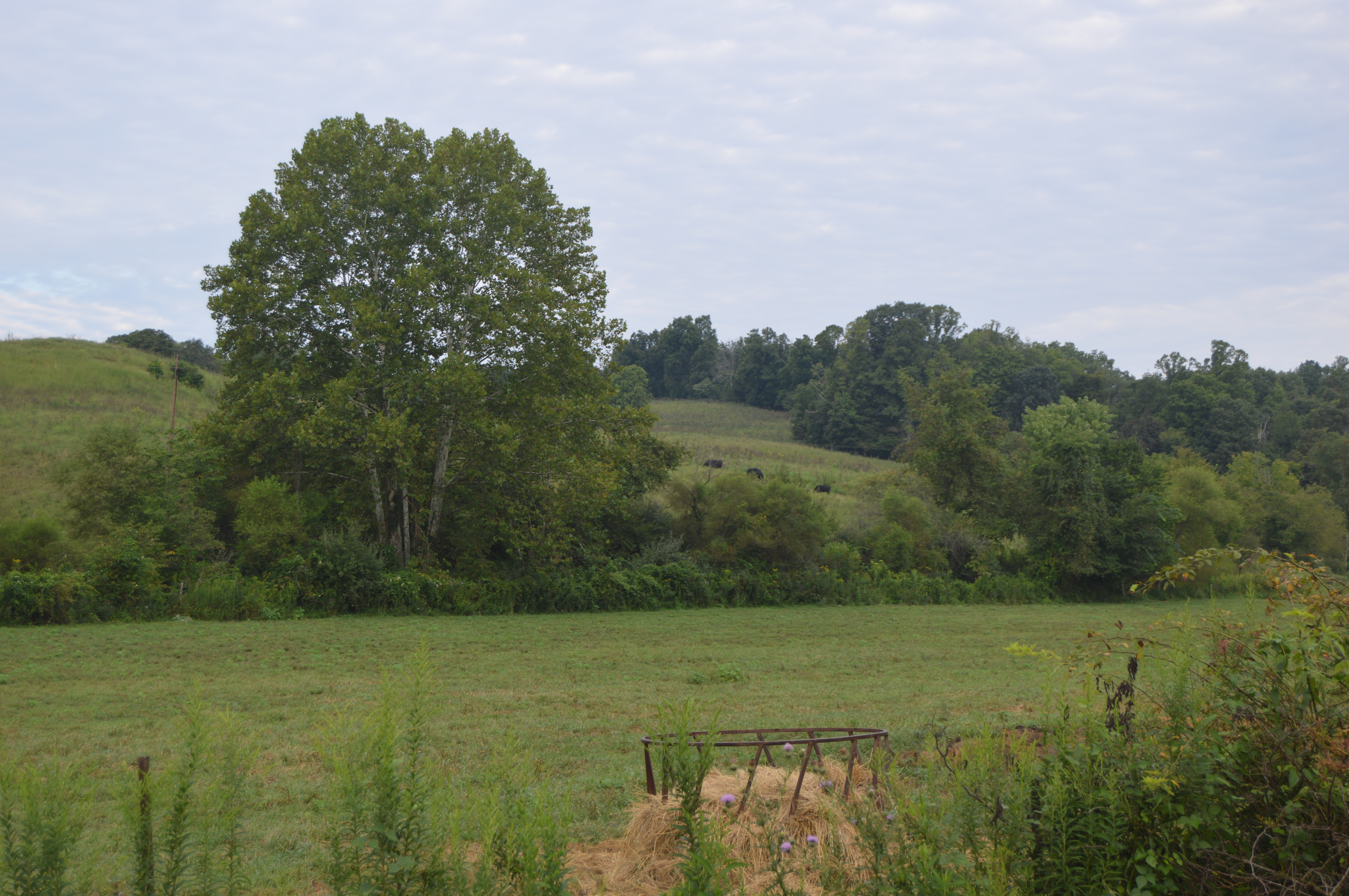 Fields on the western side of State Route 681 just northwest of Darwin in Bedford Township, Meigs County, Ohio, United States.